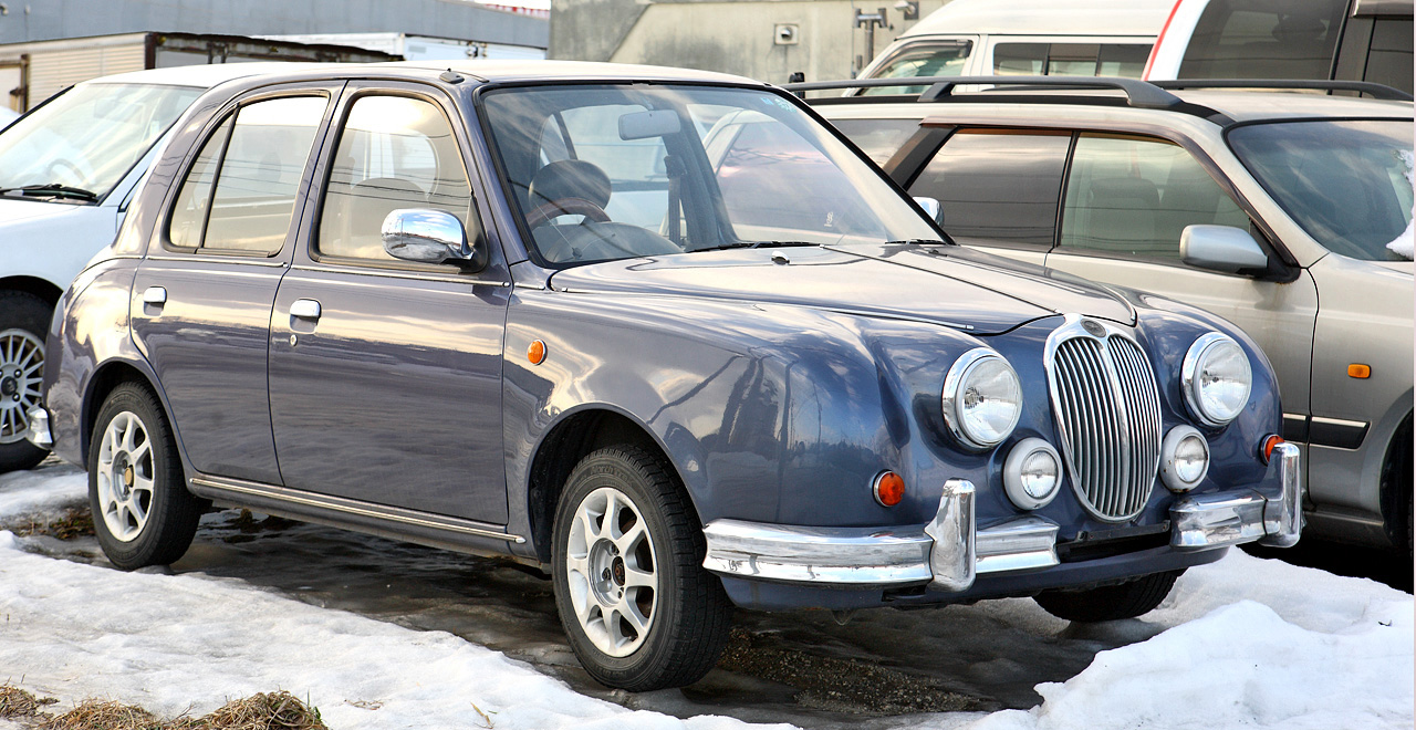 Mitsuoka Viewt ( K11 )